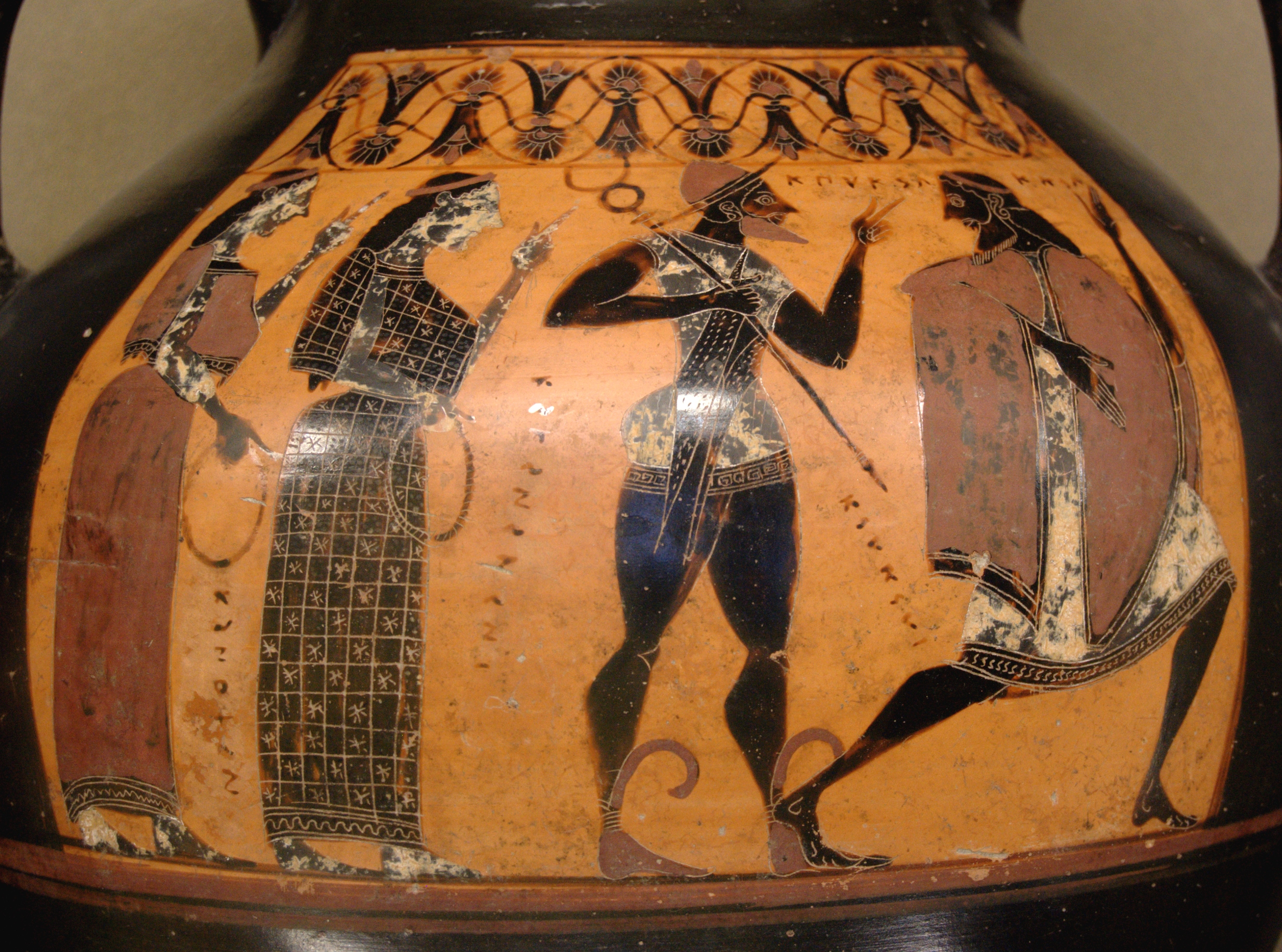 Side A from an attic black-figure amphora